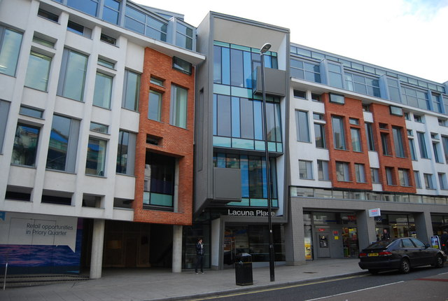 Lacuna Place, Havelock Rd